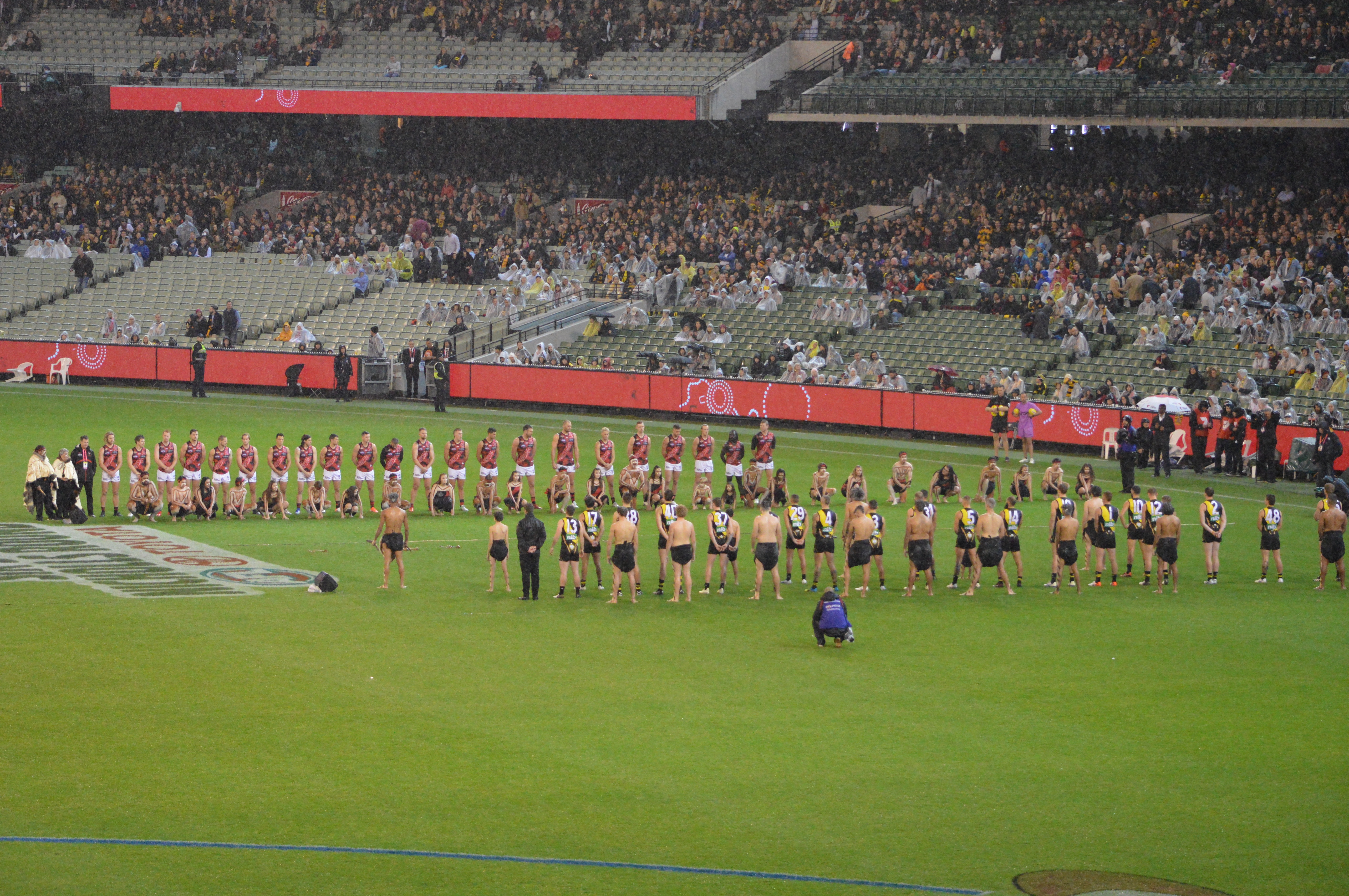 Clubs line up for the war cry in the round 10 Dreamtime at the 'G AFL match between Richmond and Essendon at the MCG on 25 May 2019.